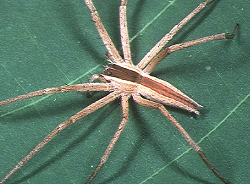 female Perenethis venusta from Okinawa.